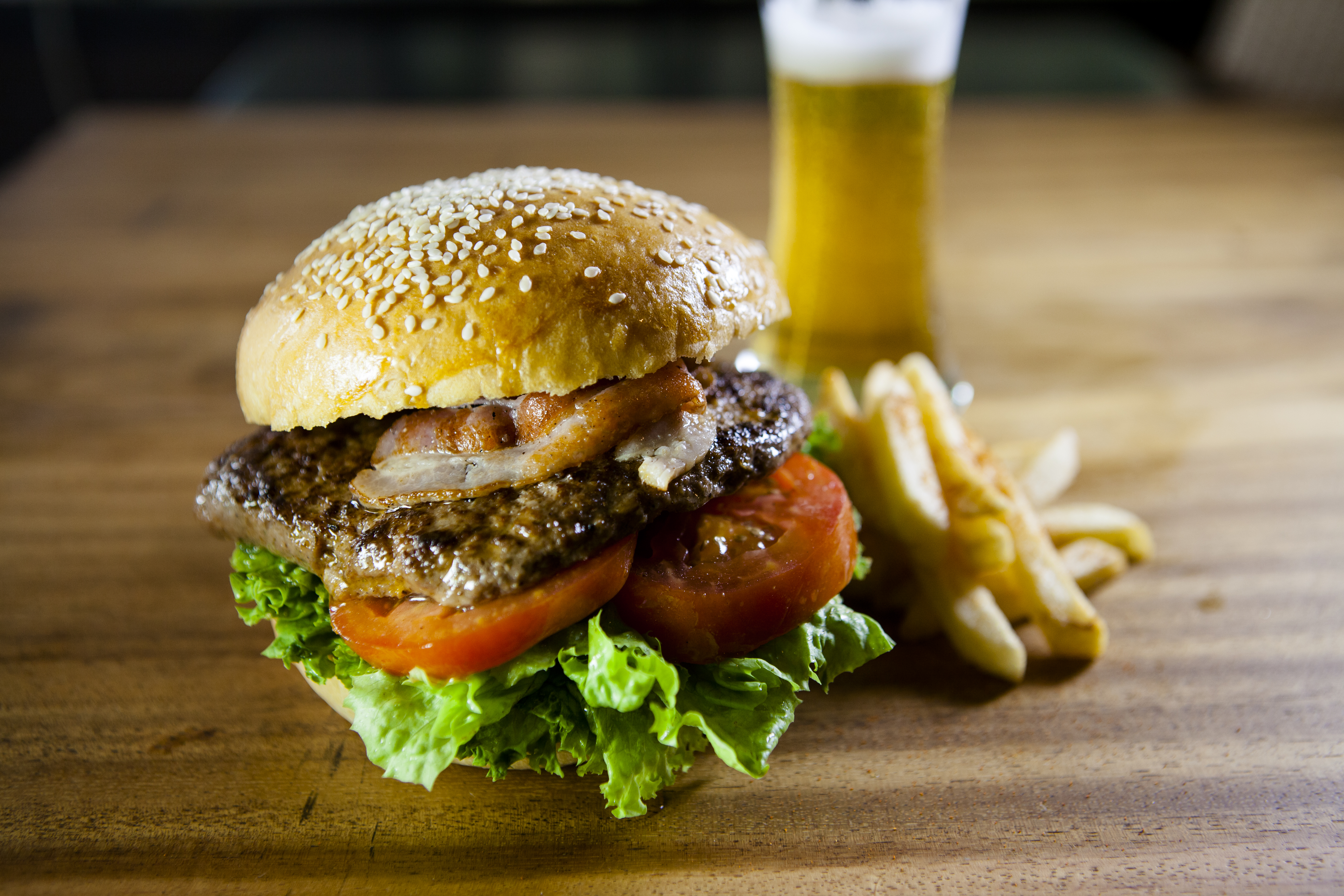 RedDot Burger